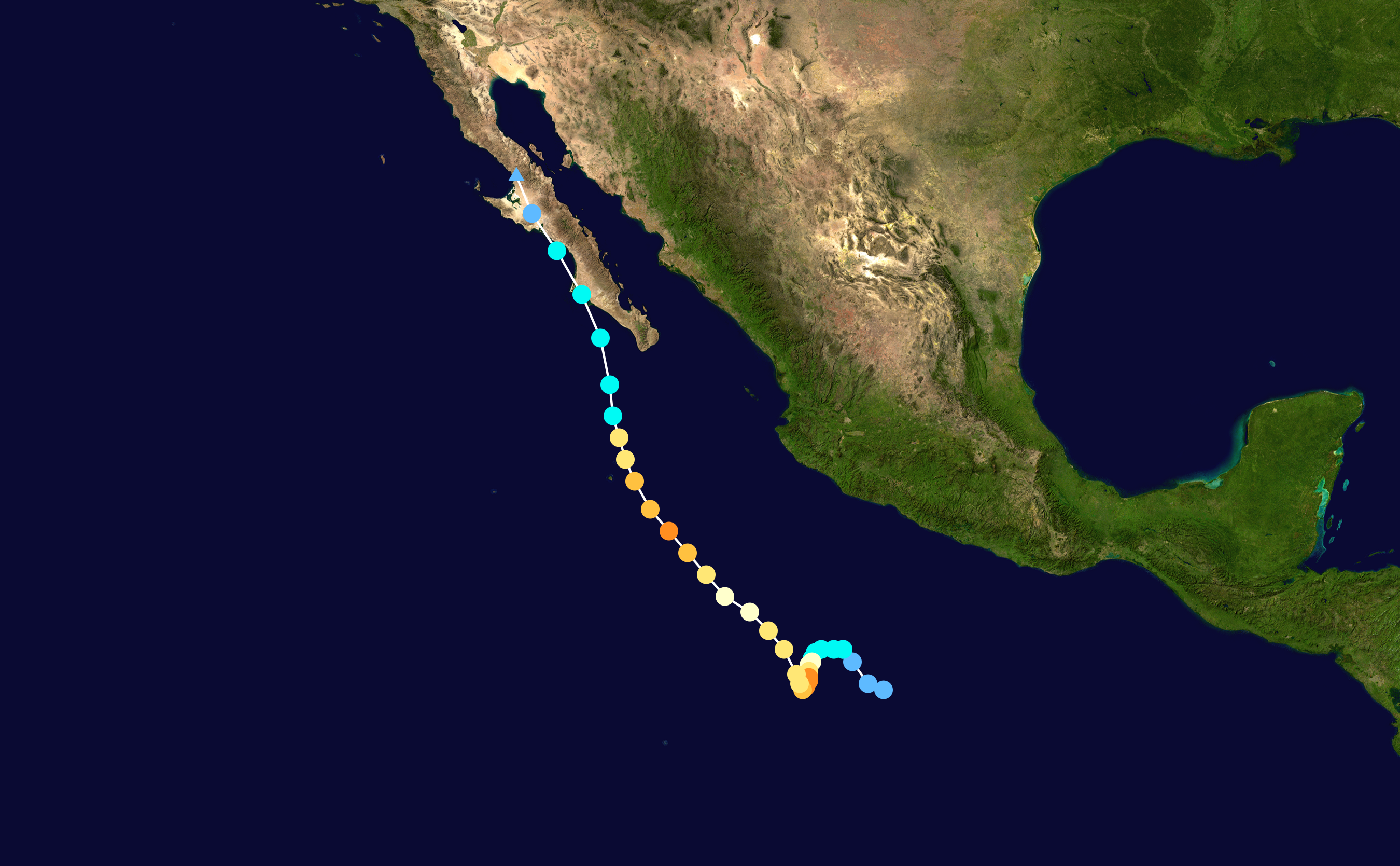 Track map of Hurricane Blanca of the 2015 Pacific hurricane season. The points show the location of the storm at 6-hour intervals. The colour represents the storm's maximum sustained wind speeds as classified in the Saffir–Simpson scale (see below), and the shape of the data points represent the nature of the storm, according to the legend below. Saffir–Simpson scale Tropical depression≤38 mph≤62 km/h Category 3111–129 mph178–208 km/h Tropical storm39–73 mph63–118 km/h Category 4130–156 mph209–251 km/h Category 174–95 mph119–153 km/h Category 5≥157 mph≥252 km/h Category 296–110 mph154–177 km/h Unknown Storm type Tropical cyclone Subtropical cyclone Extratropical cyclone / Remnant low / Tropical disturbance / Monsoon depression